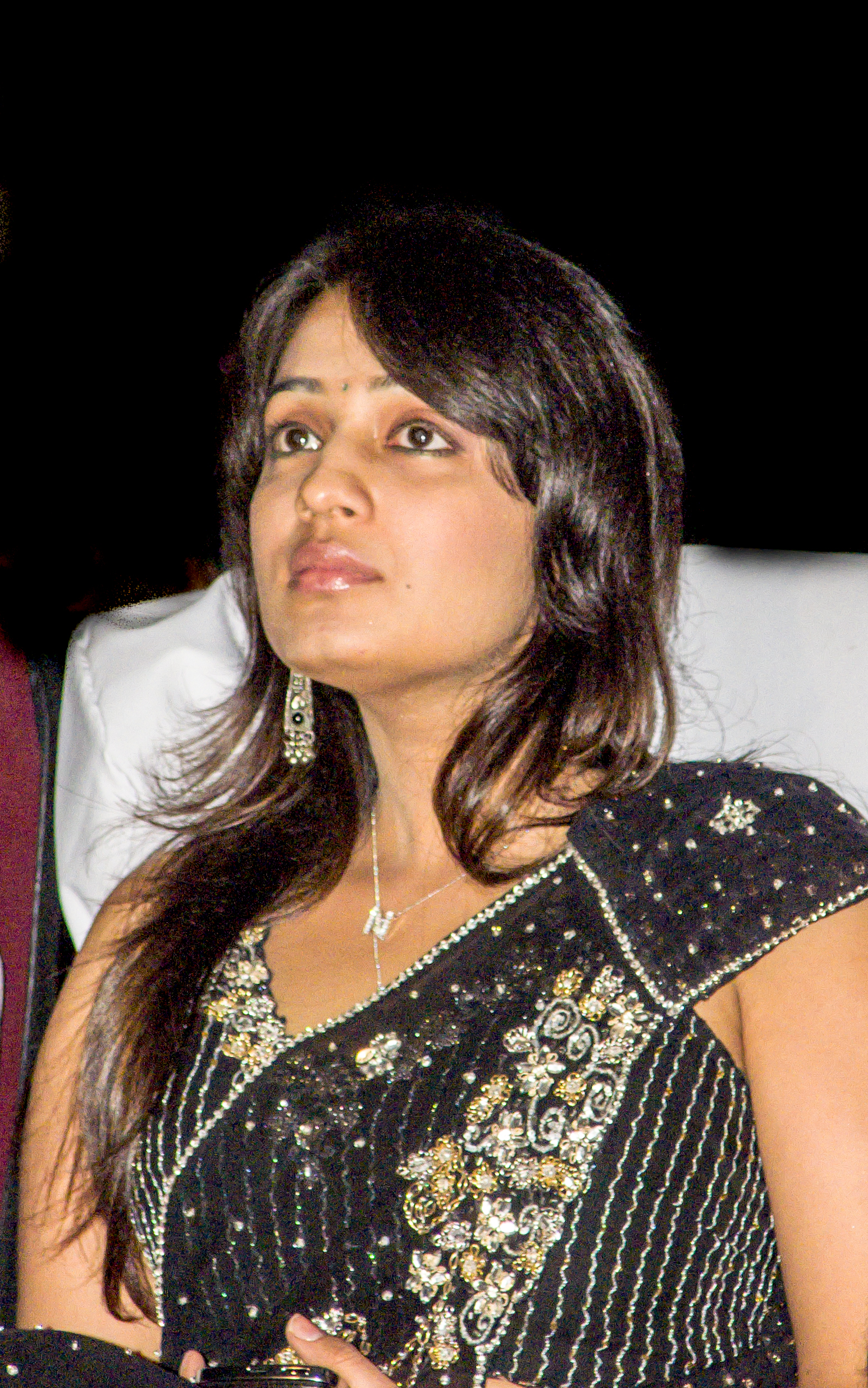 Nikita Thukral at SRM University Milan 2010